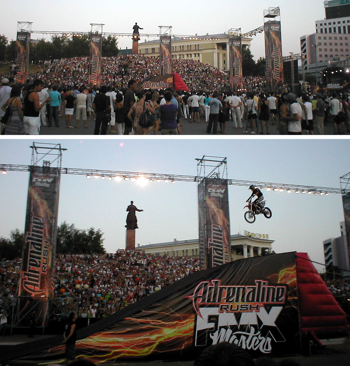 stunt motorcycle show in Kazan